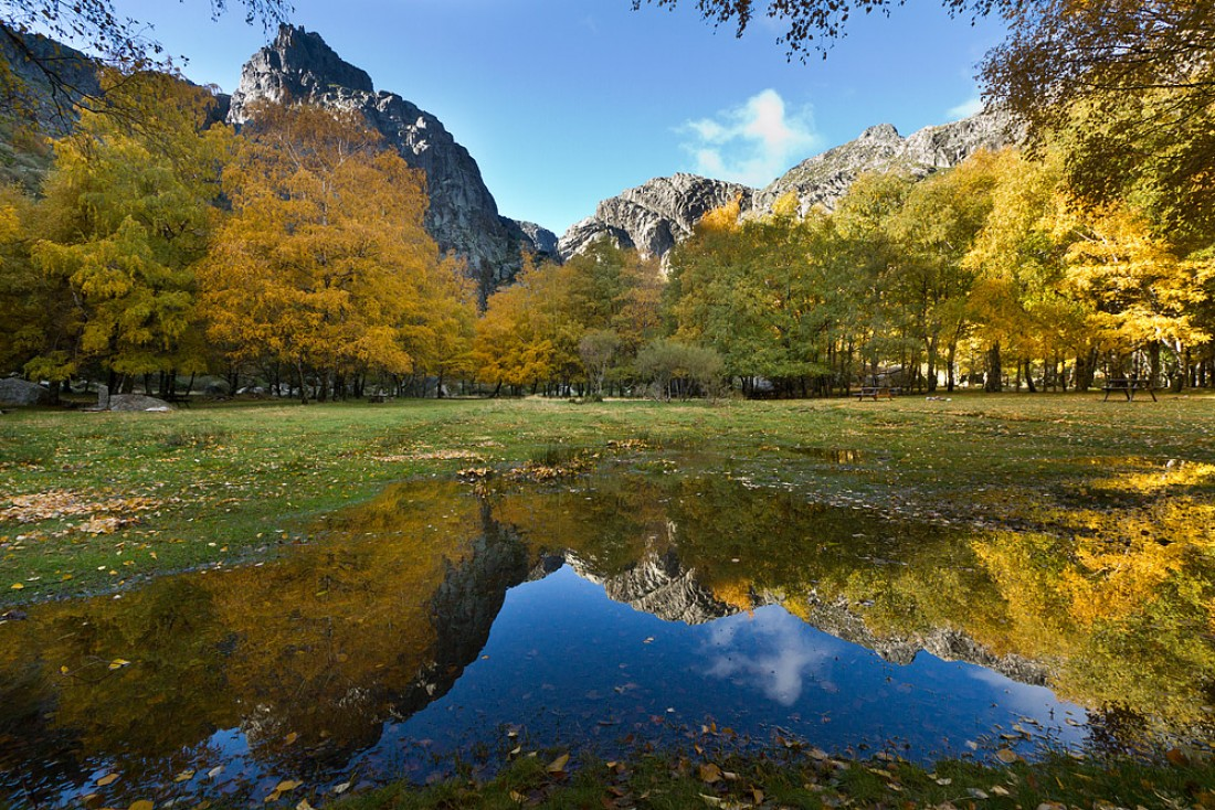 Taken on Octotober 2013